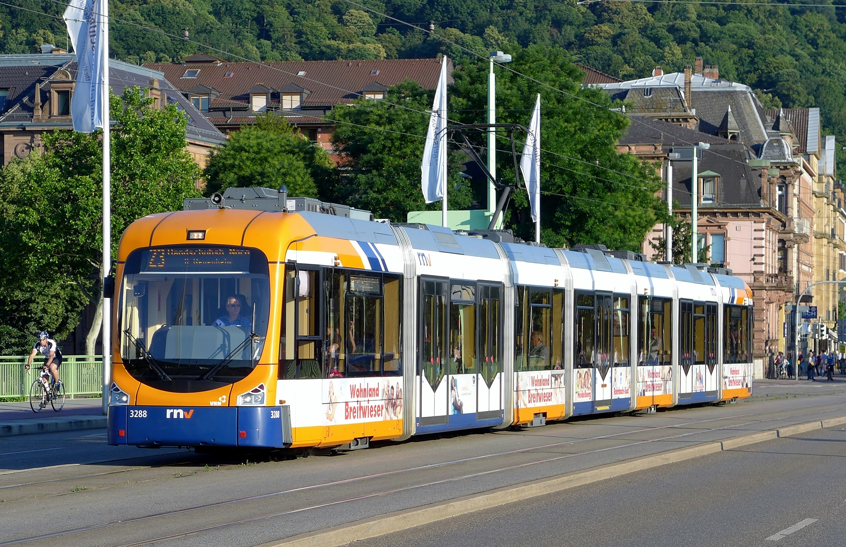 Rhein-Neckar-Verkehr (RNV) tram no. 3288 operating a northbound line 23 service across the Theodor-Heuss-Brücke in Heidelberg, Germany.